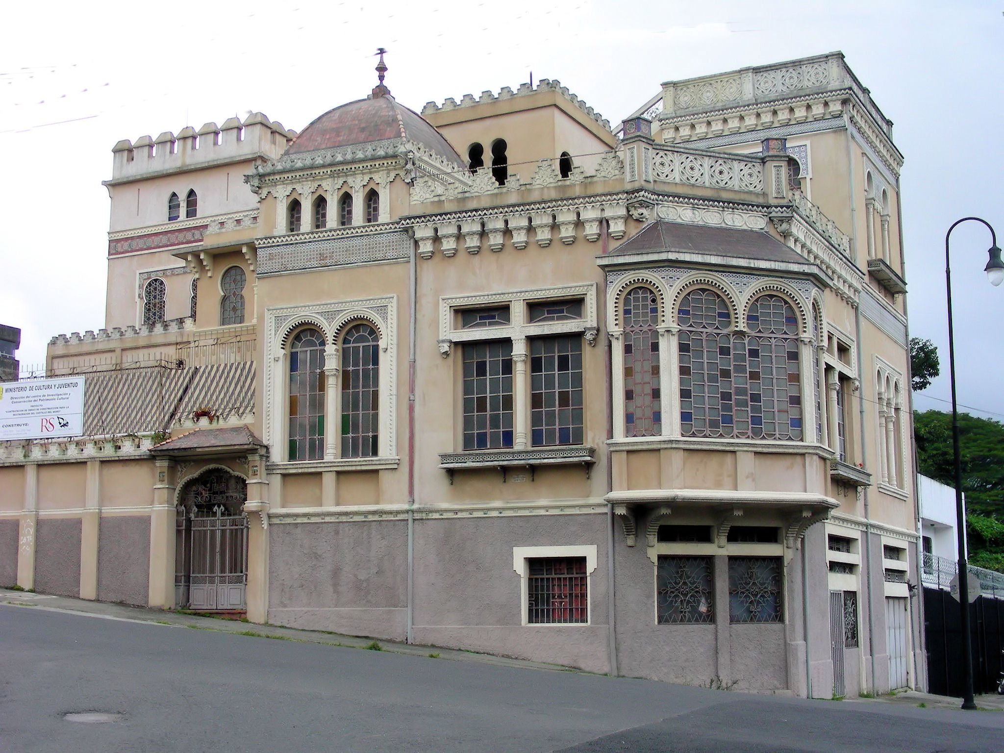 Moro's Castle, Barrio Tournón, San José, Costa Rica